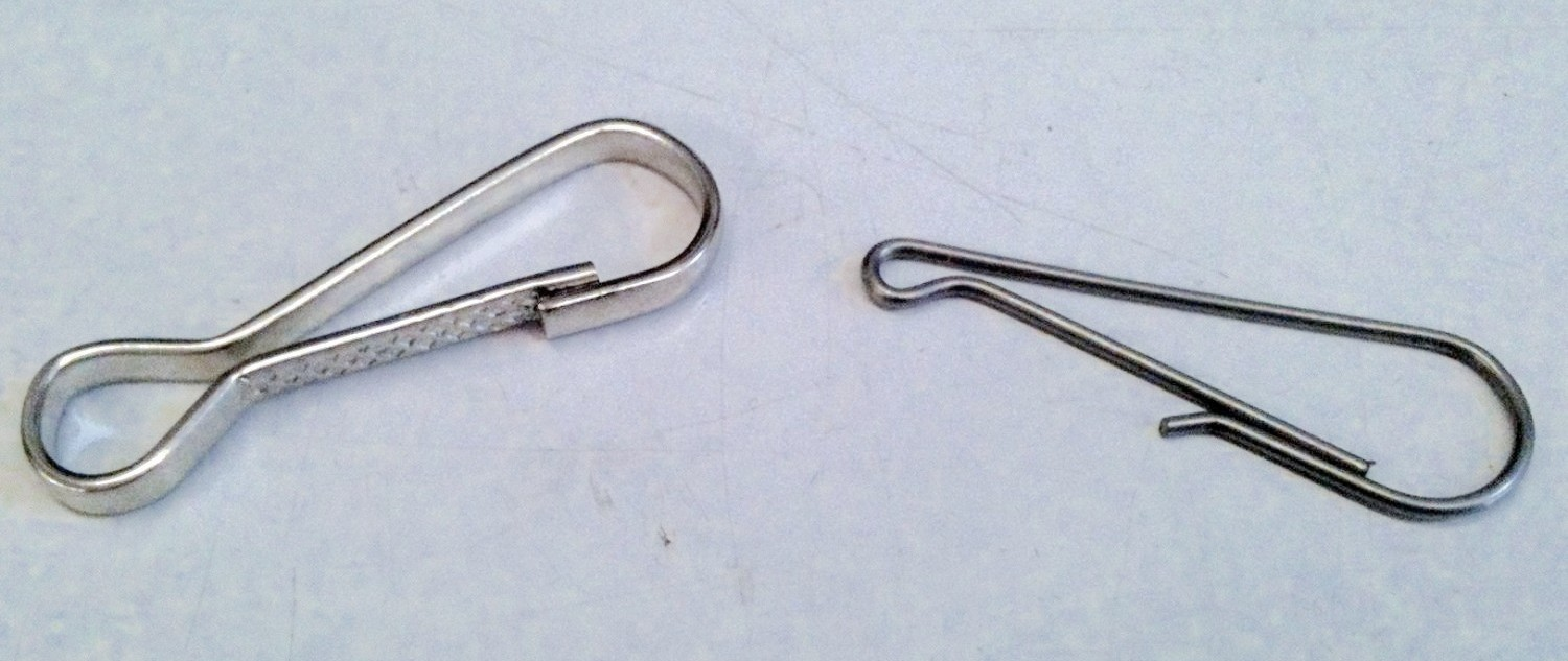 Spring snap hook, also known as a lanyard hook